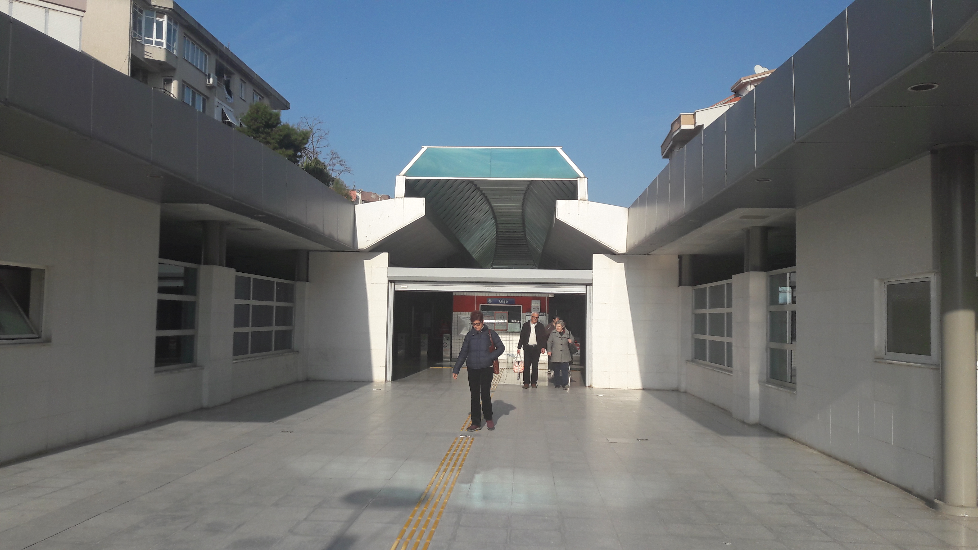 The entrance to Alaybey station on the Northern Line of the IZBAN commuter rail system.